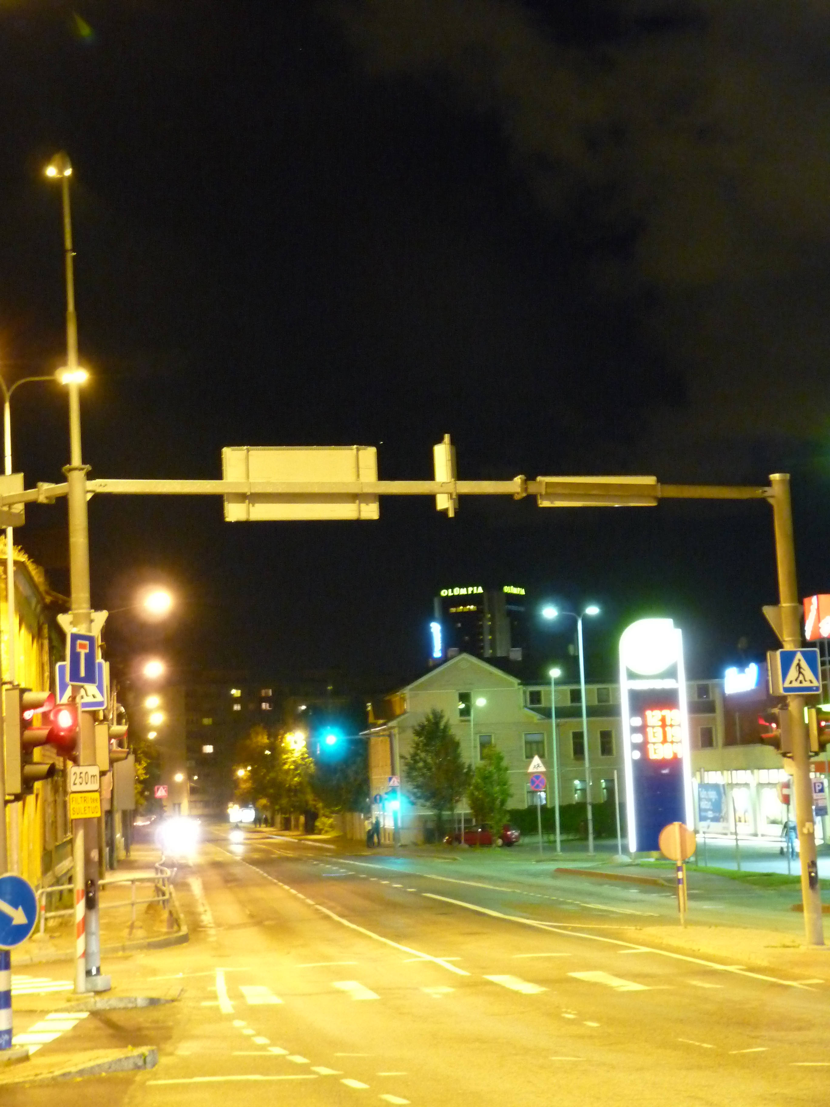 Juhkentali